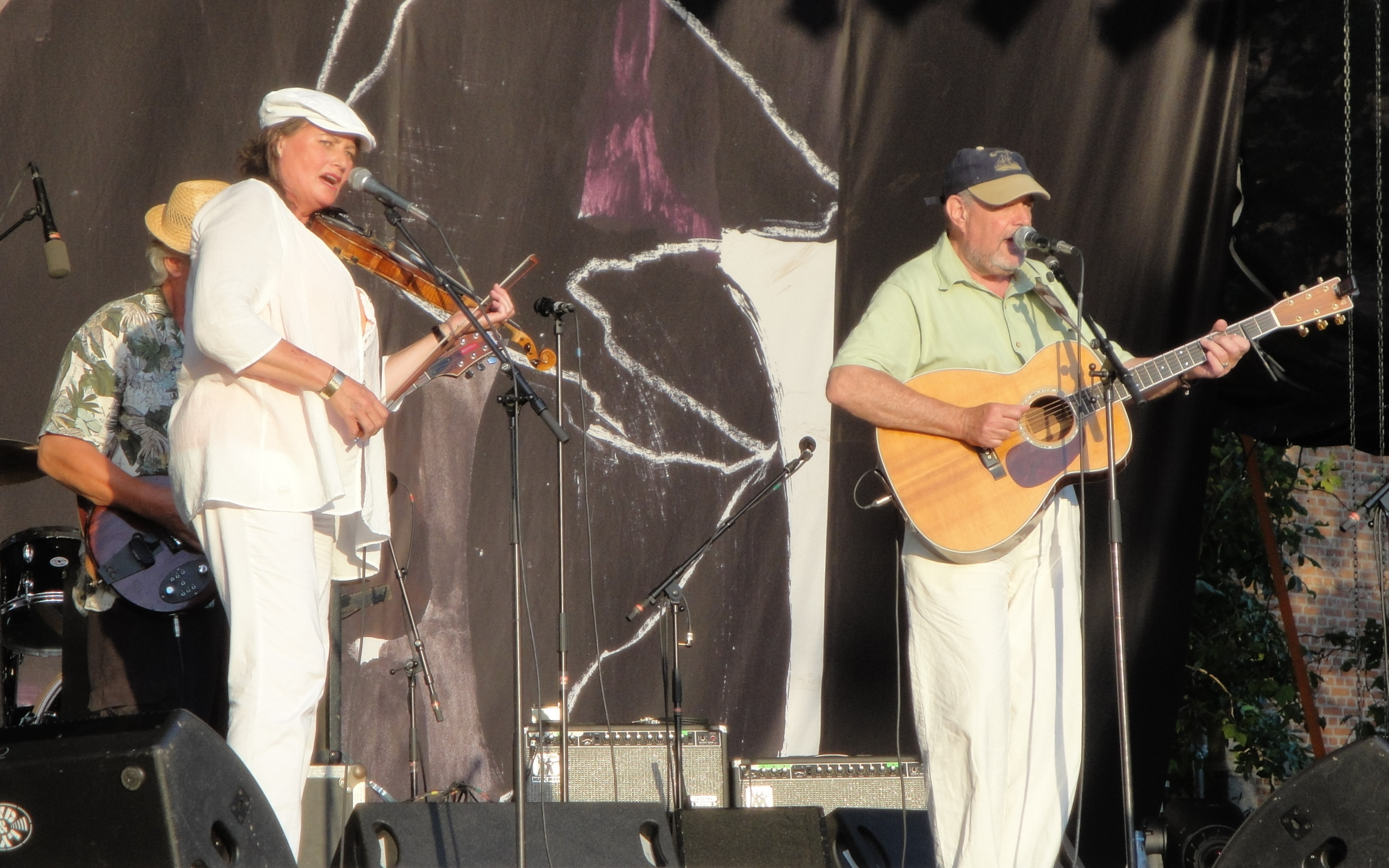 Danish duo Lasse and Mathilde playing and singing live at Valdemars Slot, Tåsinge, Denmark on 10 July 2010.